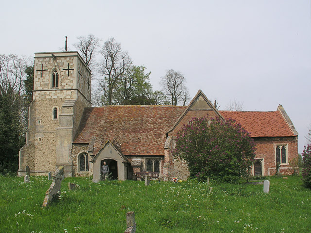 Croydon.